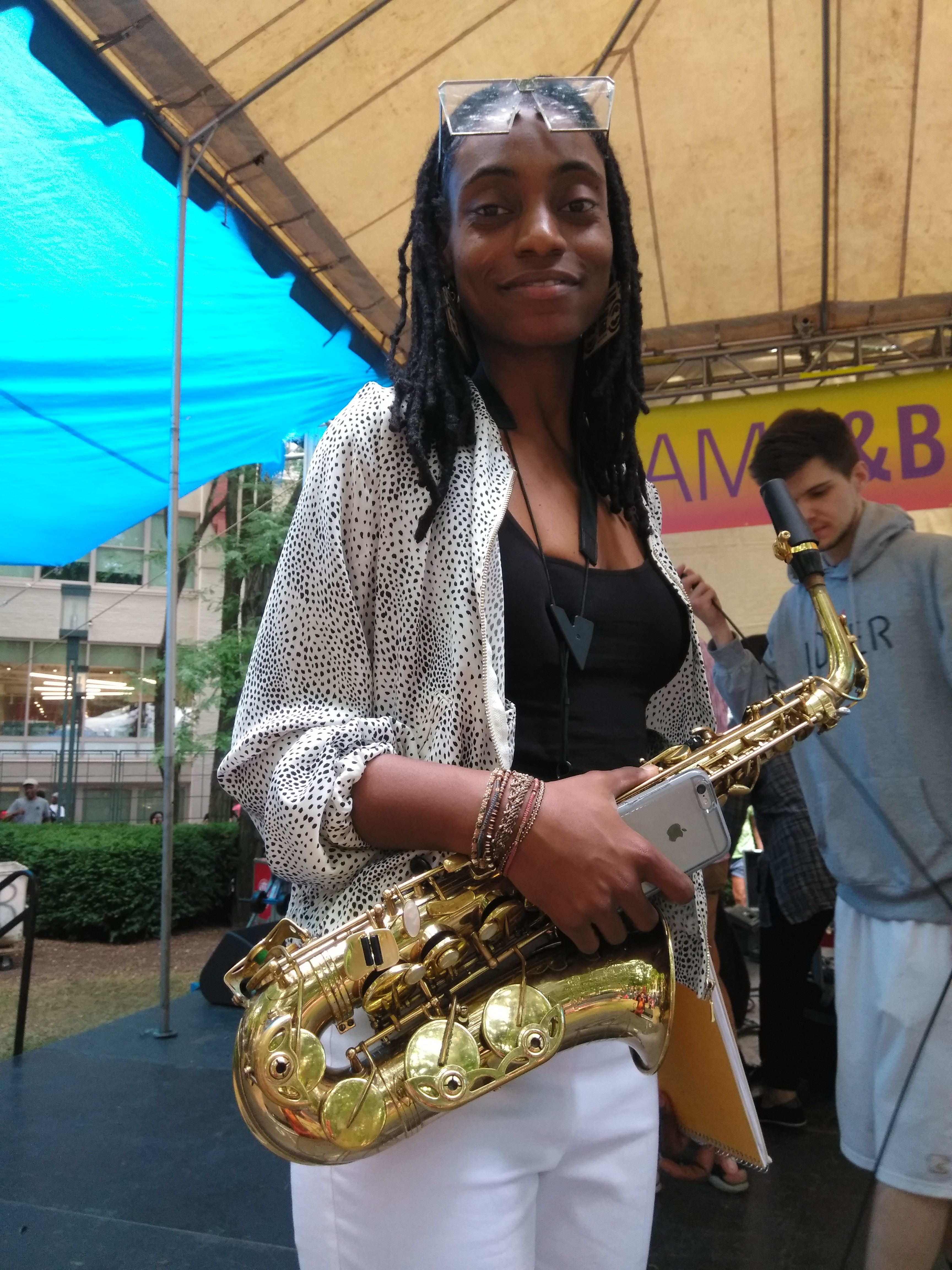 photo by Linda Fletcher